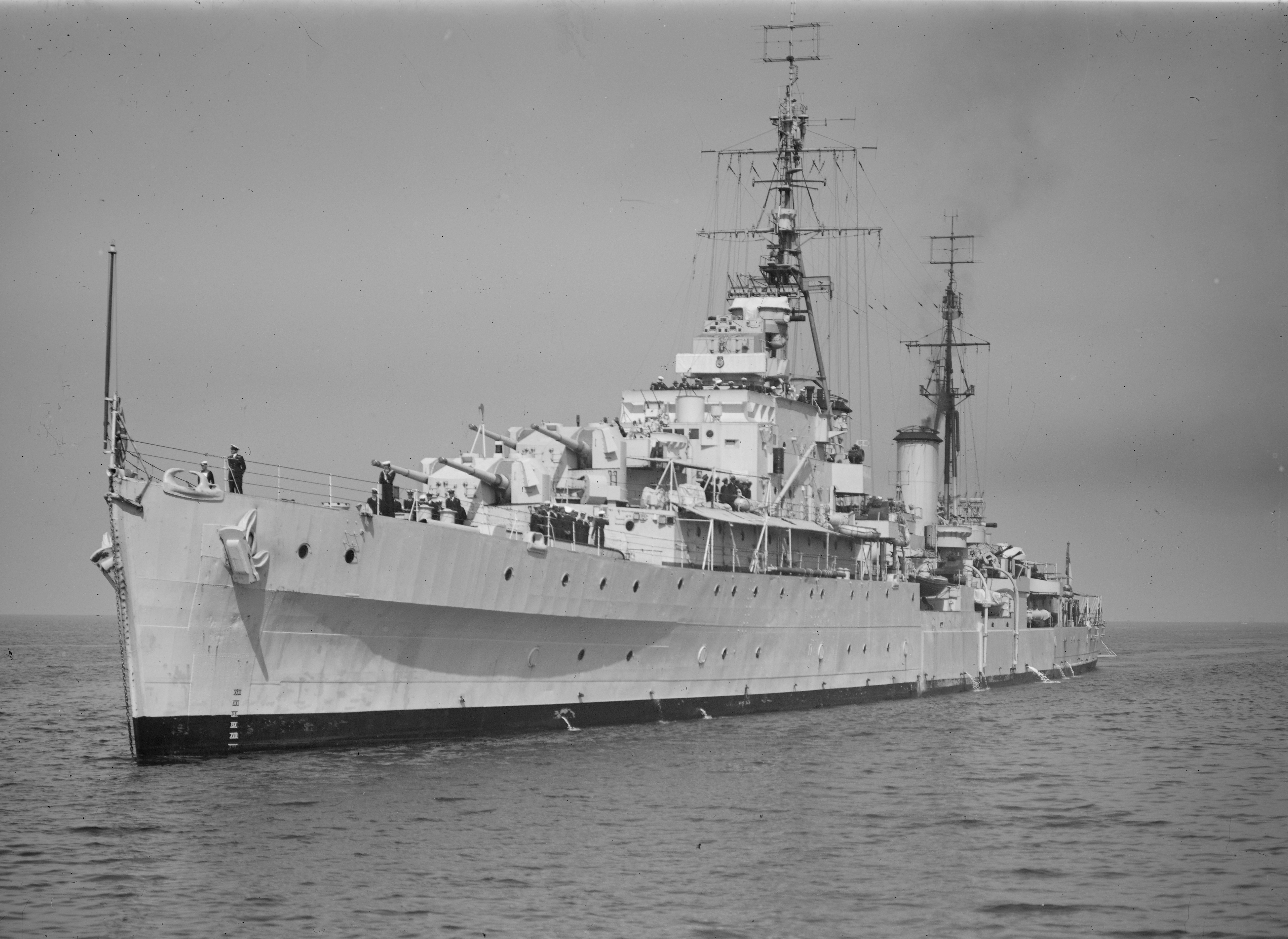 HMS Bellona